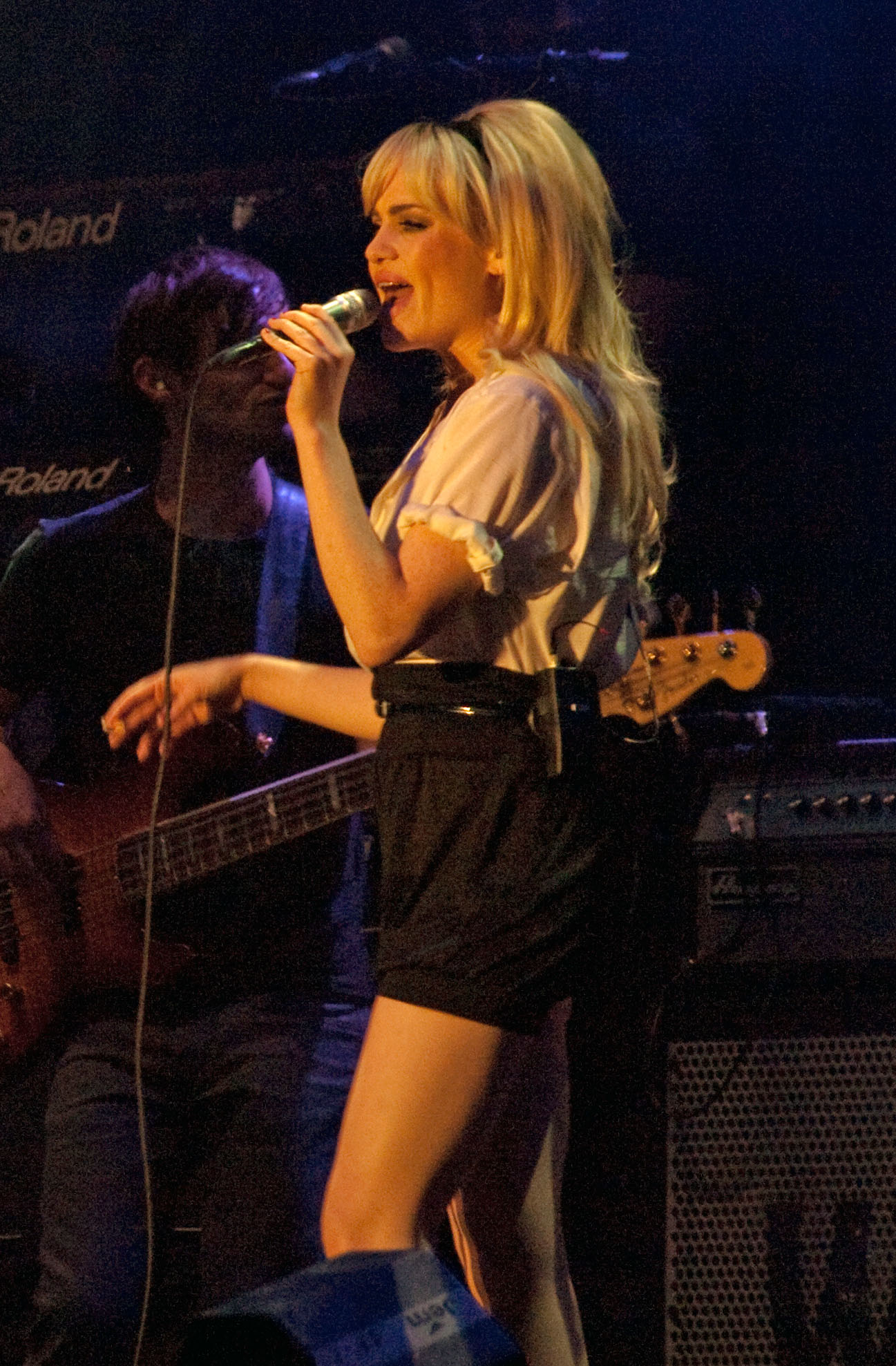 Duffy concert at the SOS 4.8 festival, 2009.